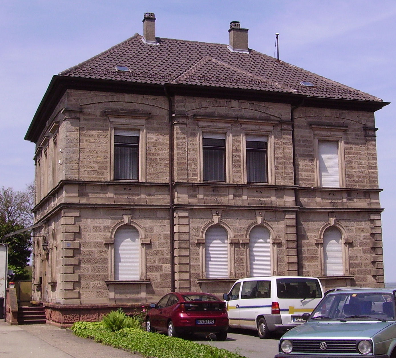 views of Wattenheim in the Palatinate, Germany